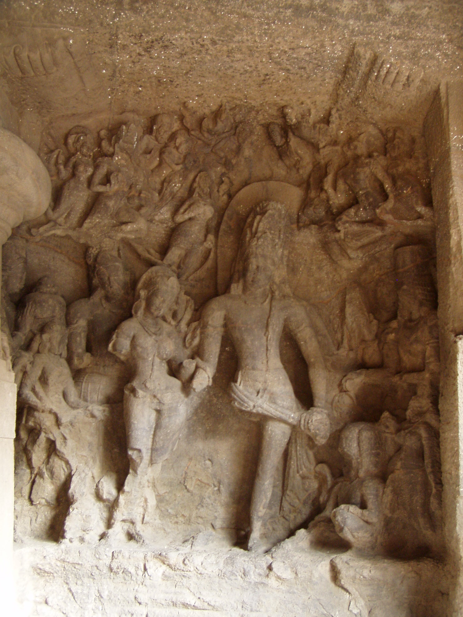 Panel depicting the divine marriage of Siva & Parvati in Elephanta caves.